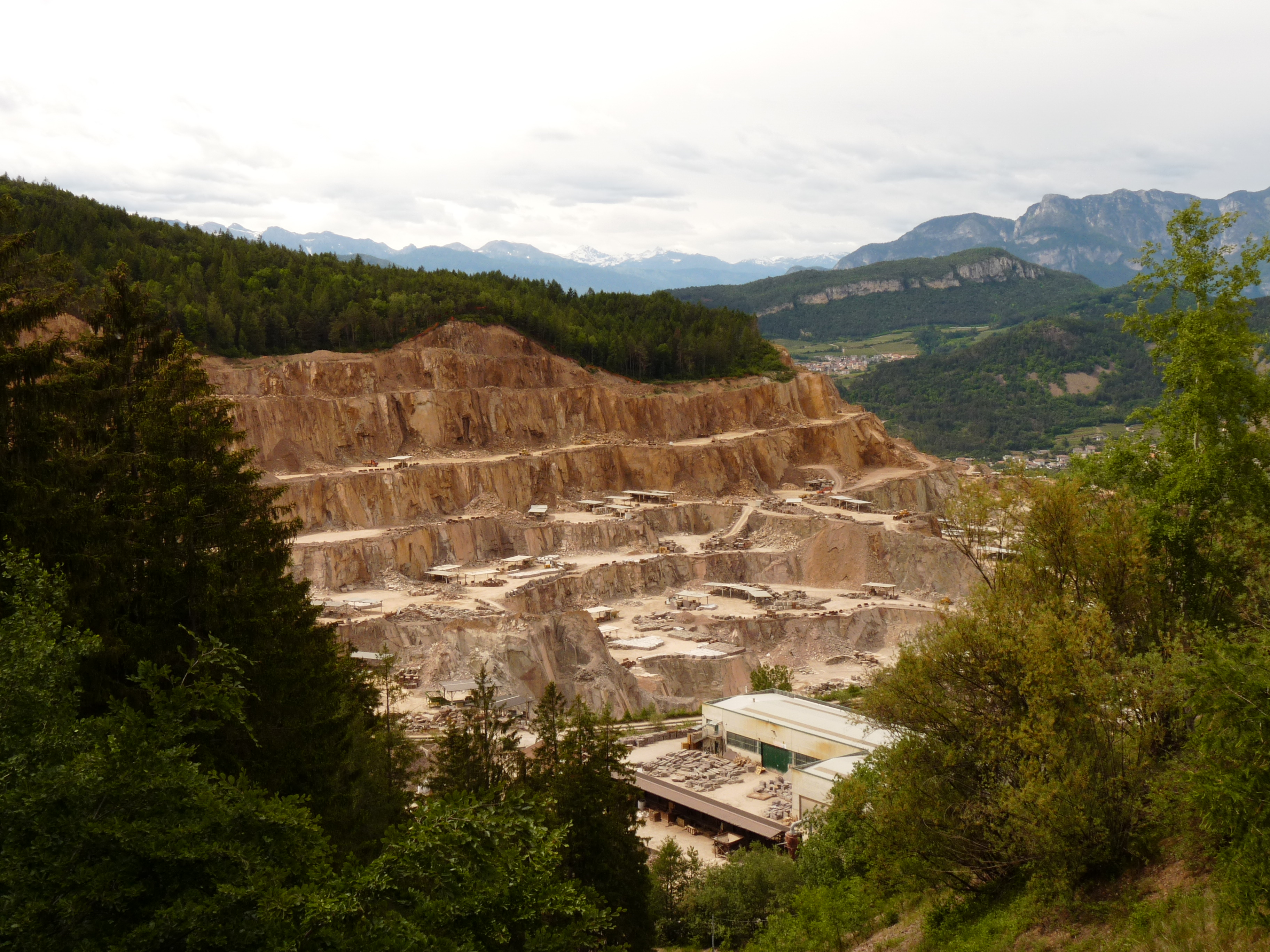 Albiano (Italy): a porphyry quarry